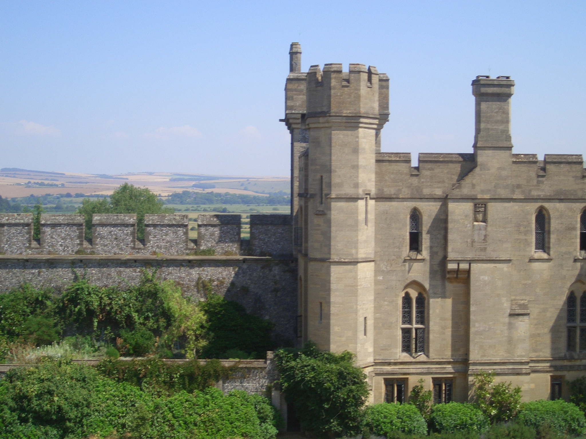 Arundel Castle -- July 2006